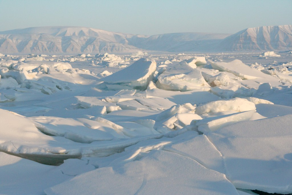 A jumble of ice caused by large rocks and the tide in shallow water below.